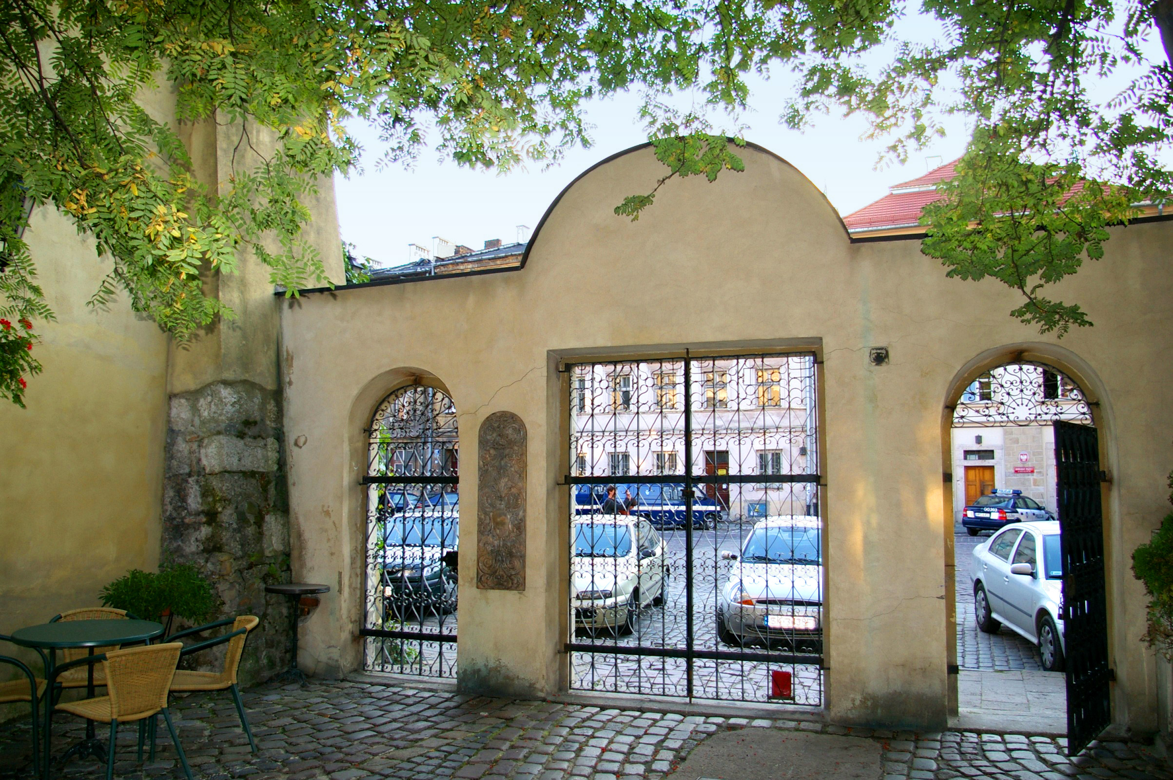 The Popper Synagogue in Kraków. Inner courtyard with exit to Szeroka Street